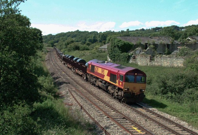 Steel Coil and Slab for Llanwern Once a every day scene steel coil and slab on the move in South Wales. With the downturn of late 2008 far less steel slab is now on the move. The farm buildings behind make an interesting back drop.